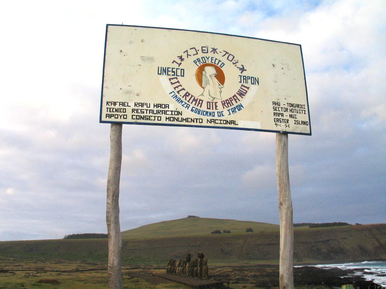 Moai protection sign on Easter Island